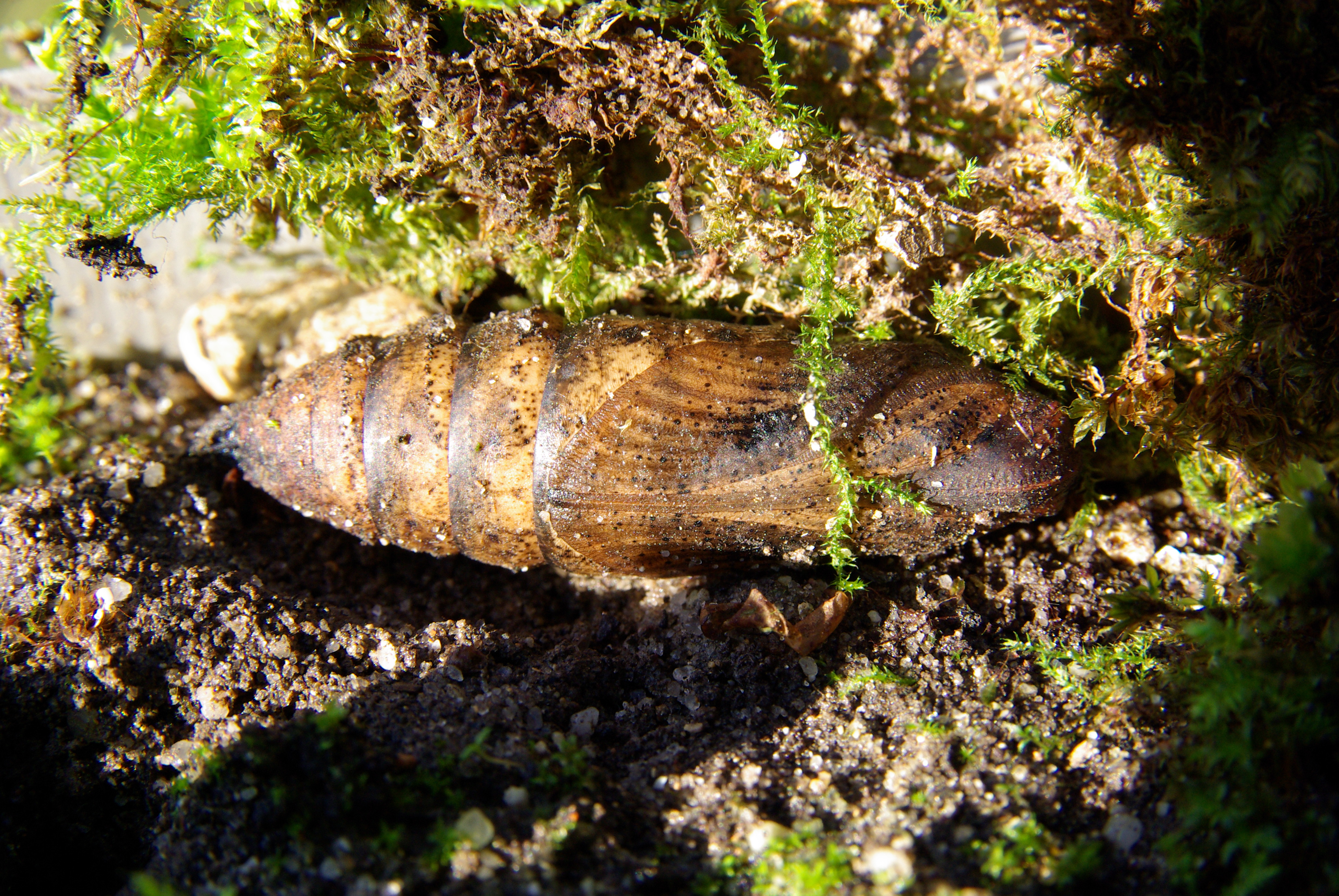 Deilephila elpenor chrysalis in a bredding cage for a follow life.